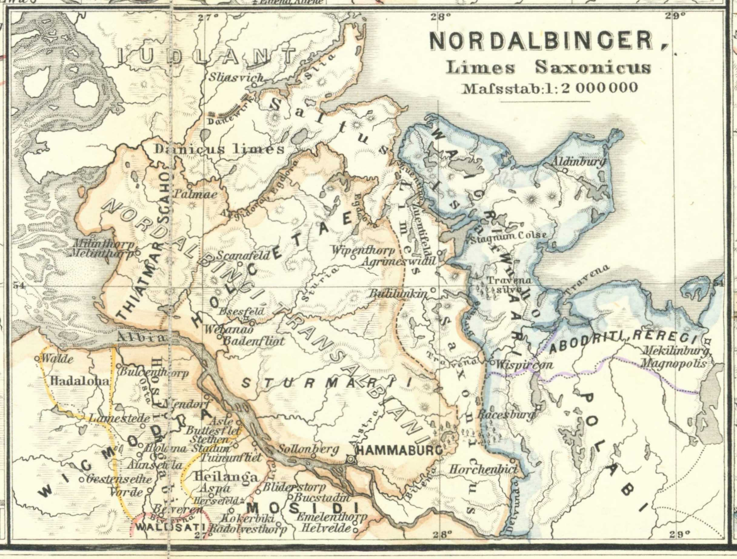 Nordalbinger, Limes Saxonicus